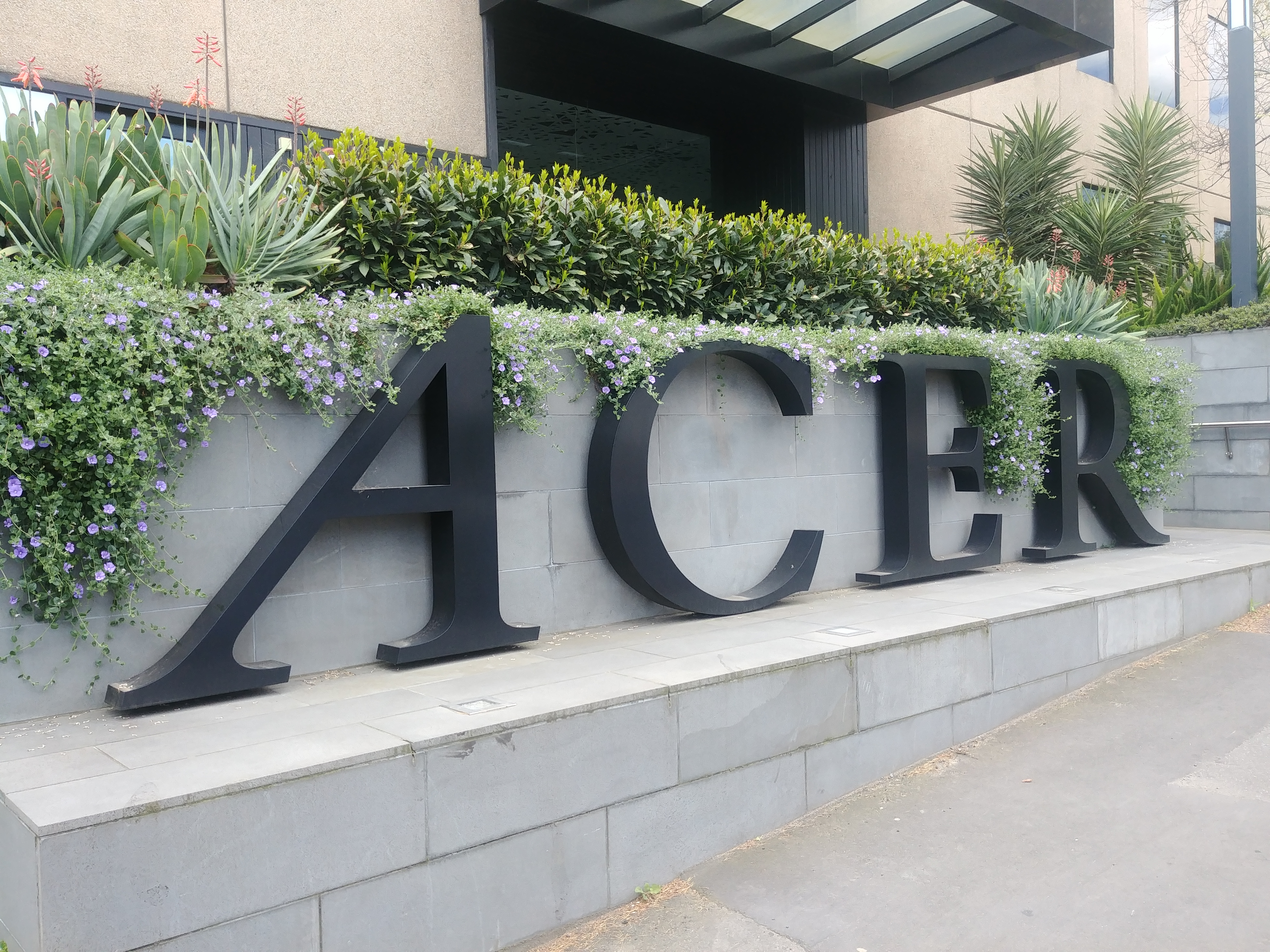 Sign at the front of the ACER building.